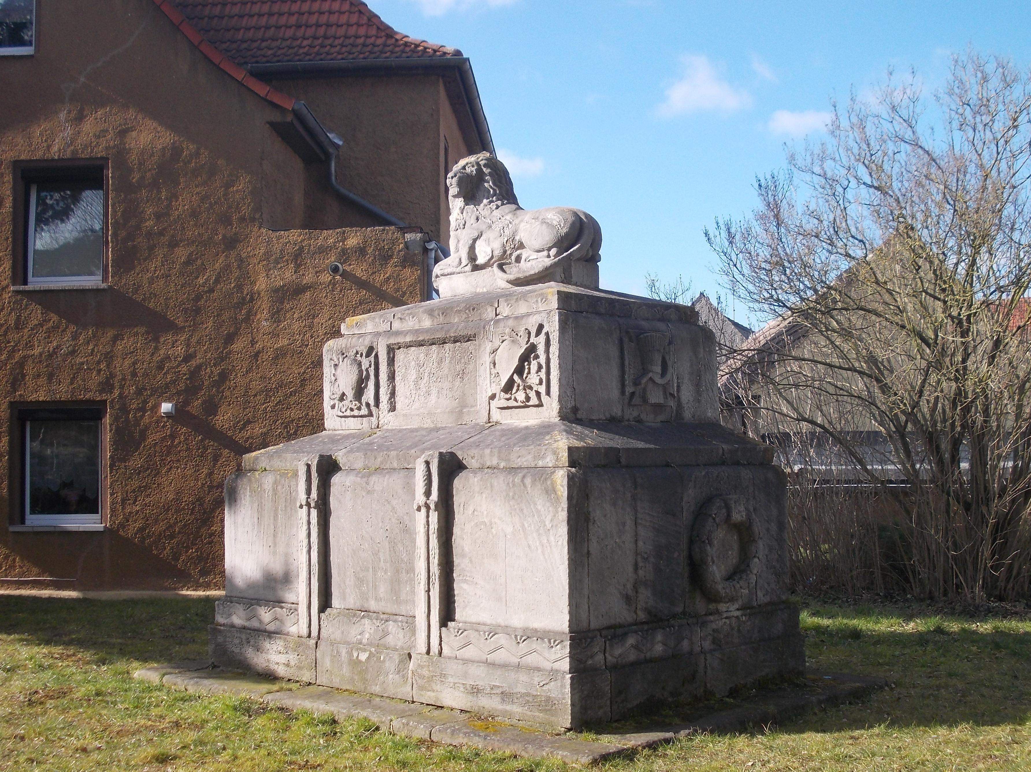 World War I memorial in Wildschütz (Teuchern, district: Burgenlandkreis, Saxony-Anhalt)